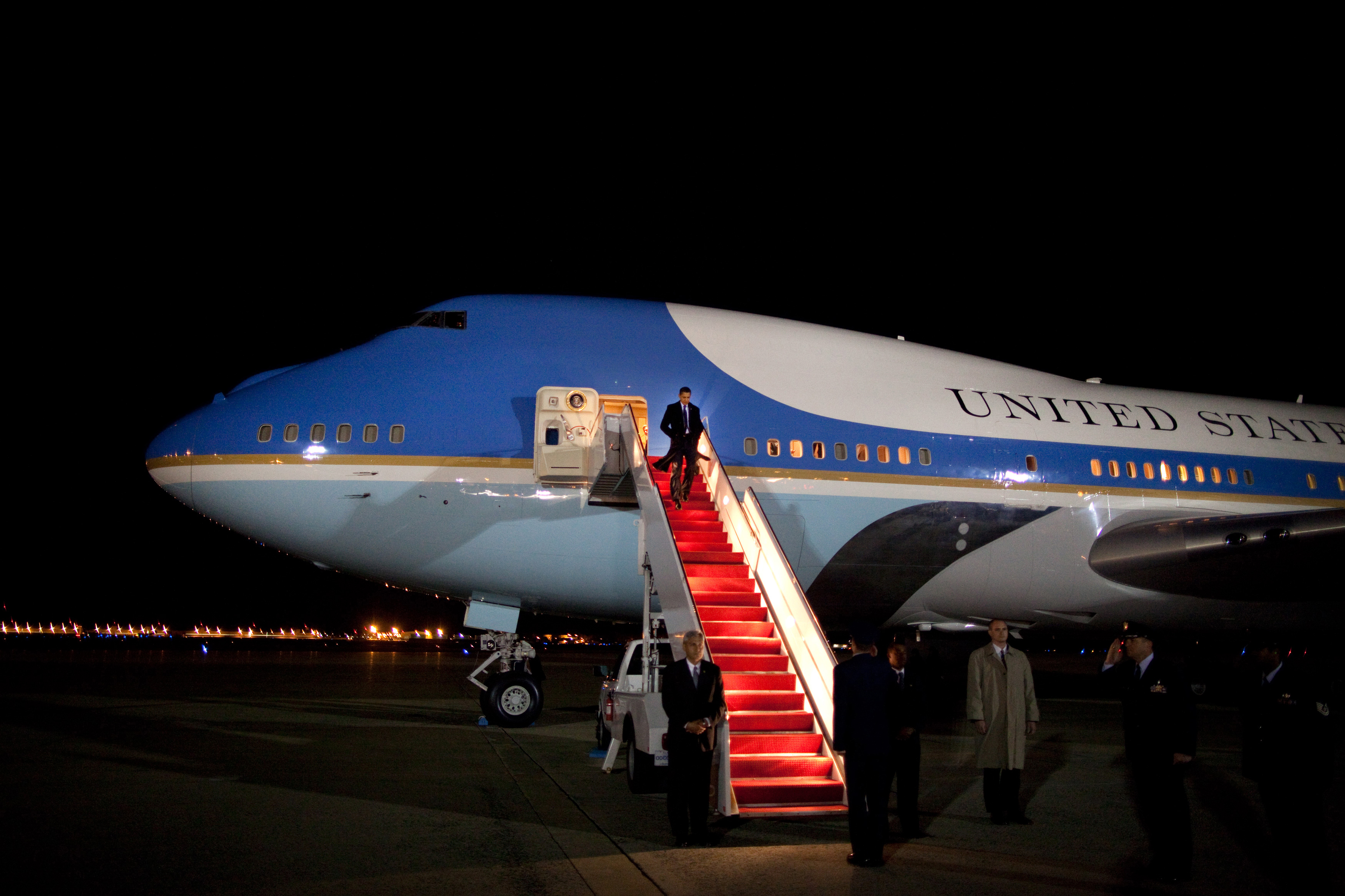 President Barack Obama makes his way down the stairs of Air Force One April 8, 2009, upon his arrival to Andrews Air Force Base returning from Baghdad, Iraq.